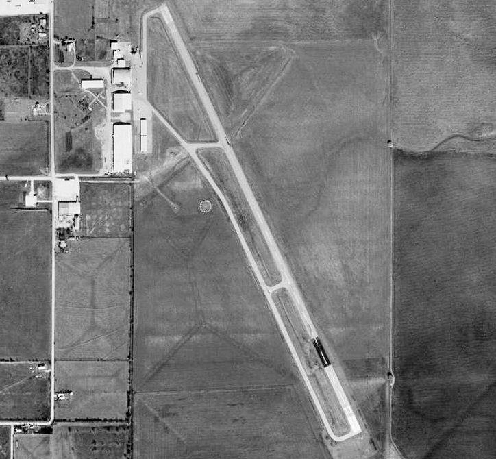 USGS orthophoto of Coleman Municipal Airport in Coleman, Texas, United States